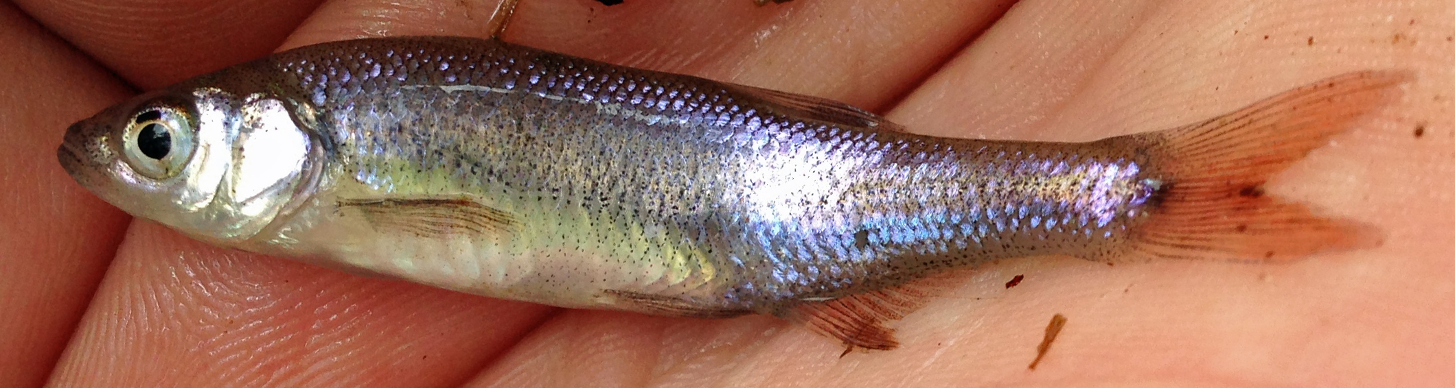 Lythrurus umbratilis, the redfin shiner from a tributary of the Kaskaskia River in Illinois